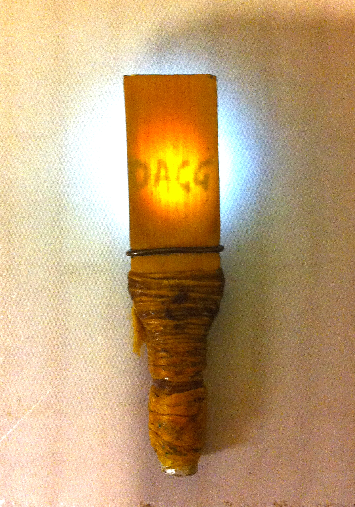 A Northumbrian smallpipe chanter reed made by Archie Dagg, showing the characteristic interior signature.